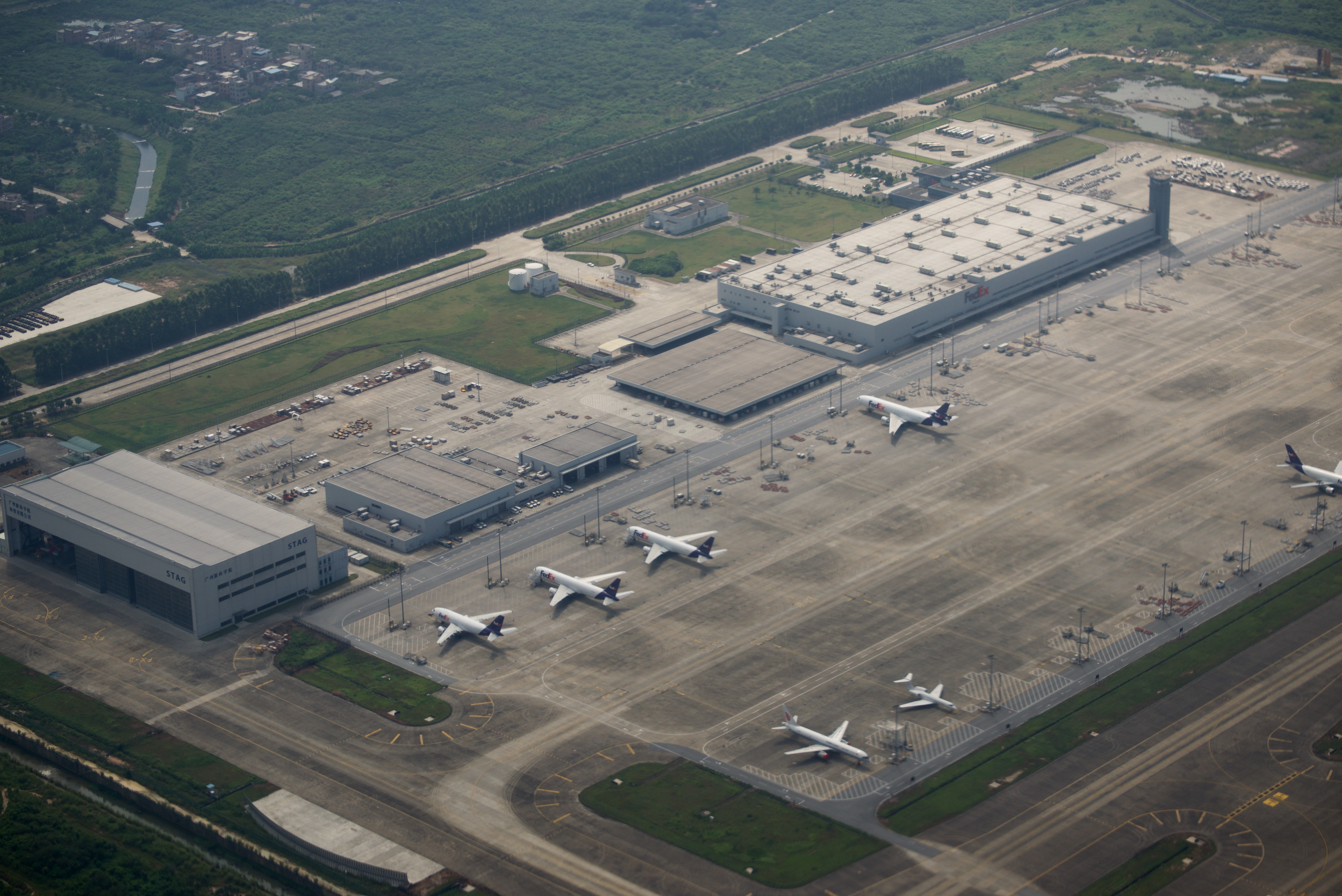 The FedEx apron at Guangzhou Baiyun International Airport (CAN/ZGGG).